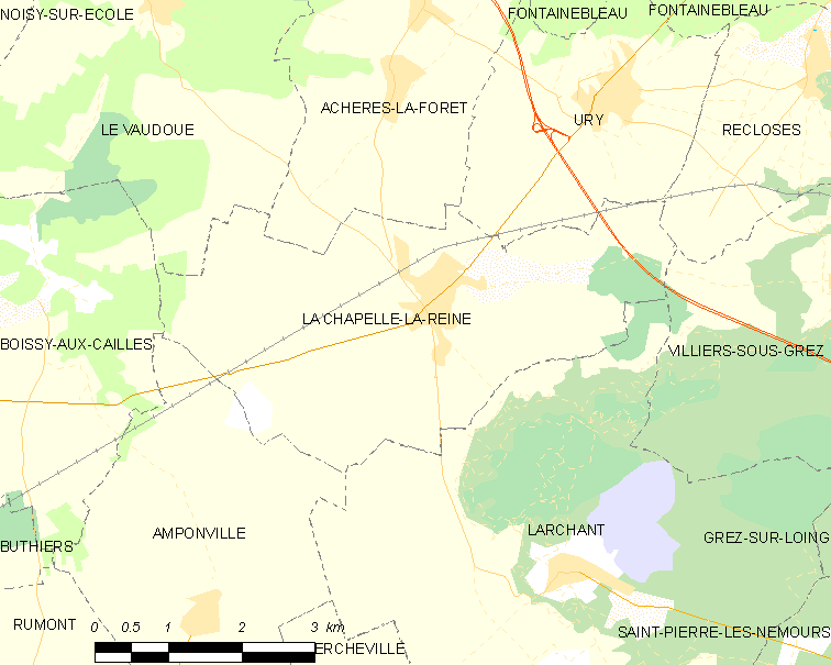 Map of French municipality La Chapelle-la-Reine